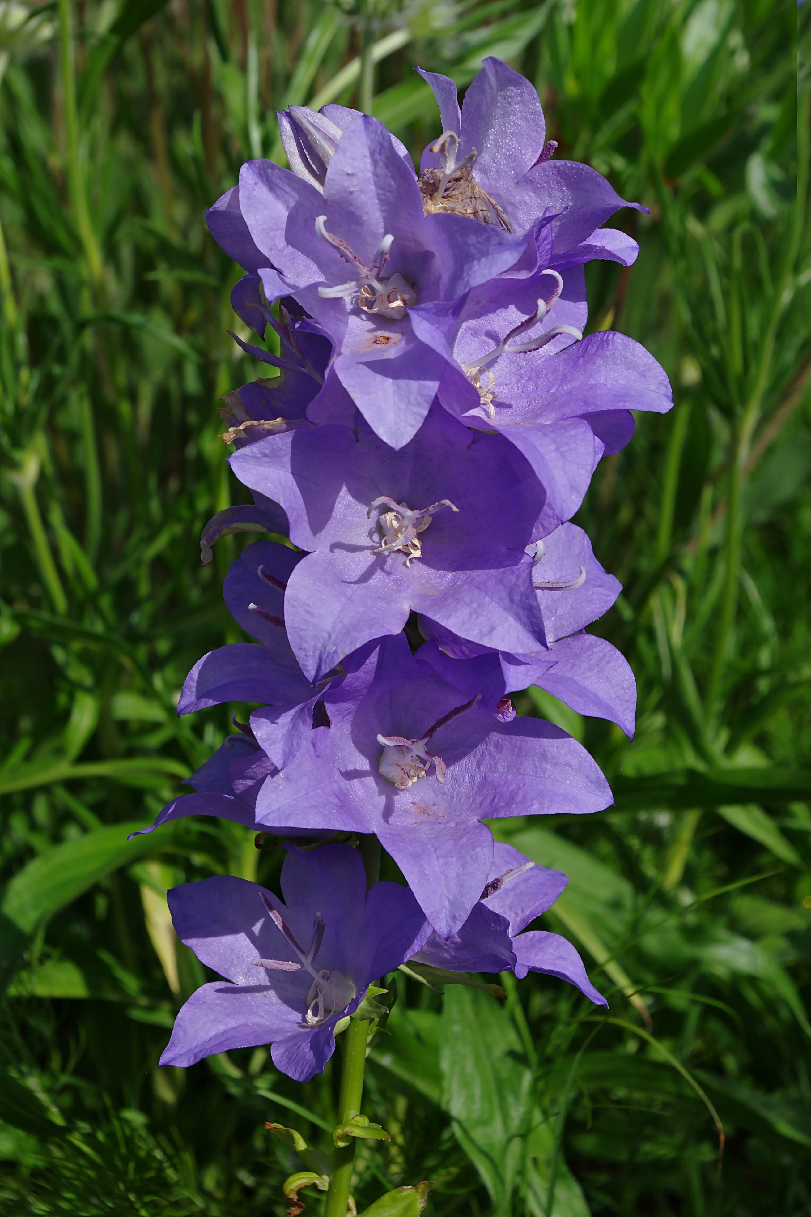 Peach-leaved Bellflower (Campanula persicifolia), in a garden, France. APG IV Classification: Domain: Eukaryota • (unranked): Archaeplastida • Regnum: Plantae • Cladus: angiosperms • Cladus: eudicots • Cladus: core eudicots • Cladus: superasterids • Cladus: asterids • Cladus: euasterids II • Ordo: Asterales • Familia: Campanulaceae • Genus: Campanula • Species: Campanula persicifolia L. (1753)